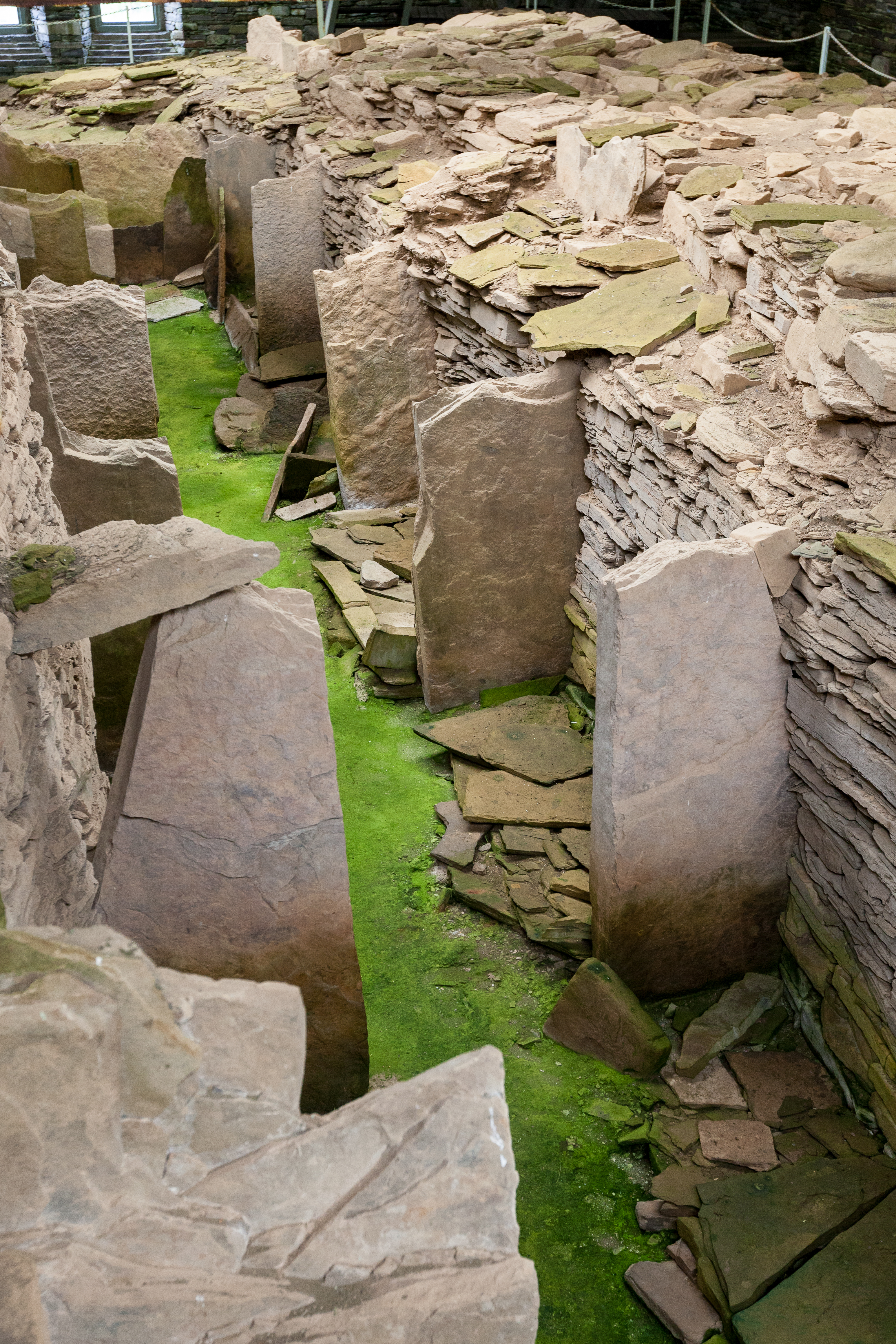 Midhowe Neolithic chambered cairn (tomb), Rousay, Orkney Wikidata has entry Q31052754 with data related to this item.